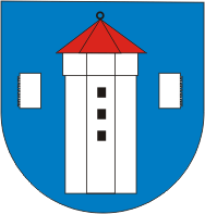 Coat of arms of Paide linn, Estonia